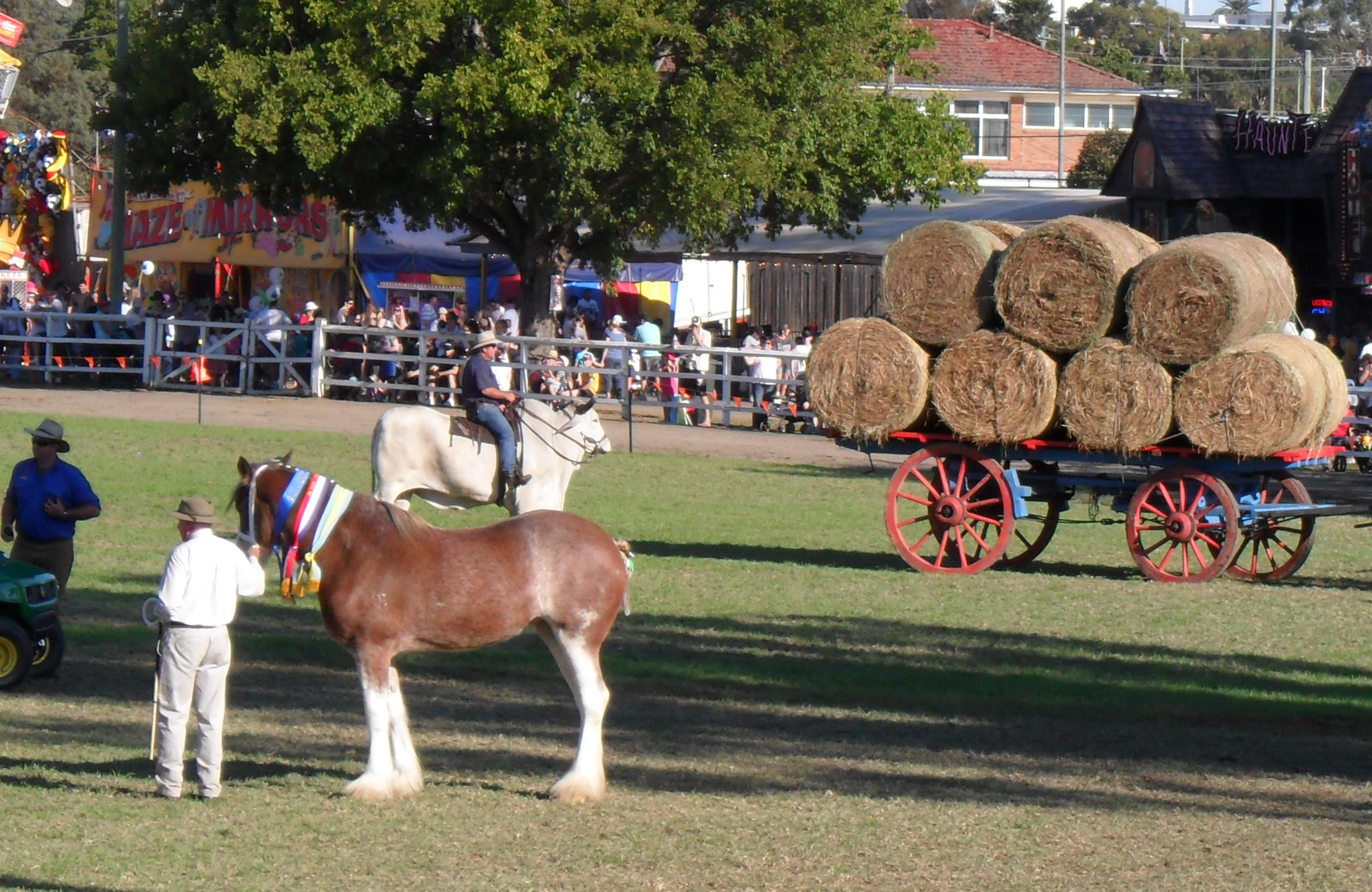 125th Anniversary Camden Show, NSW, 2011